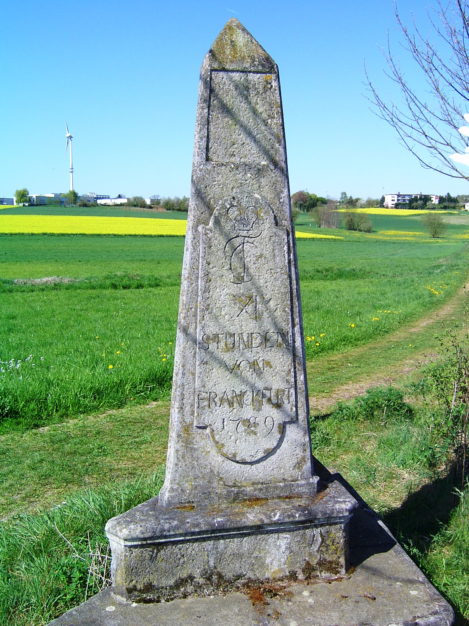 Lindenholzhausen, Germany, hourstone, Frankfurt